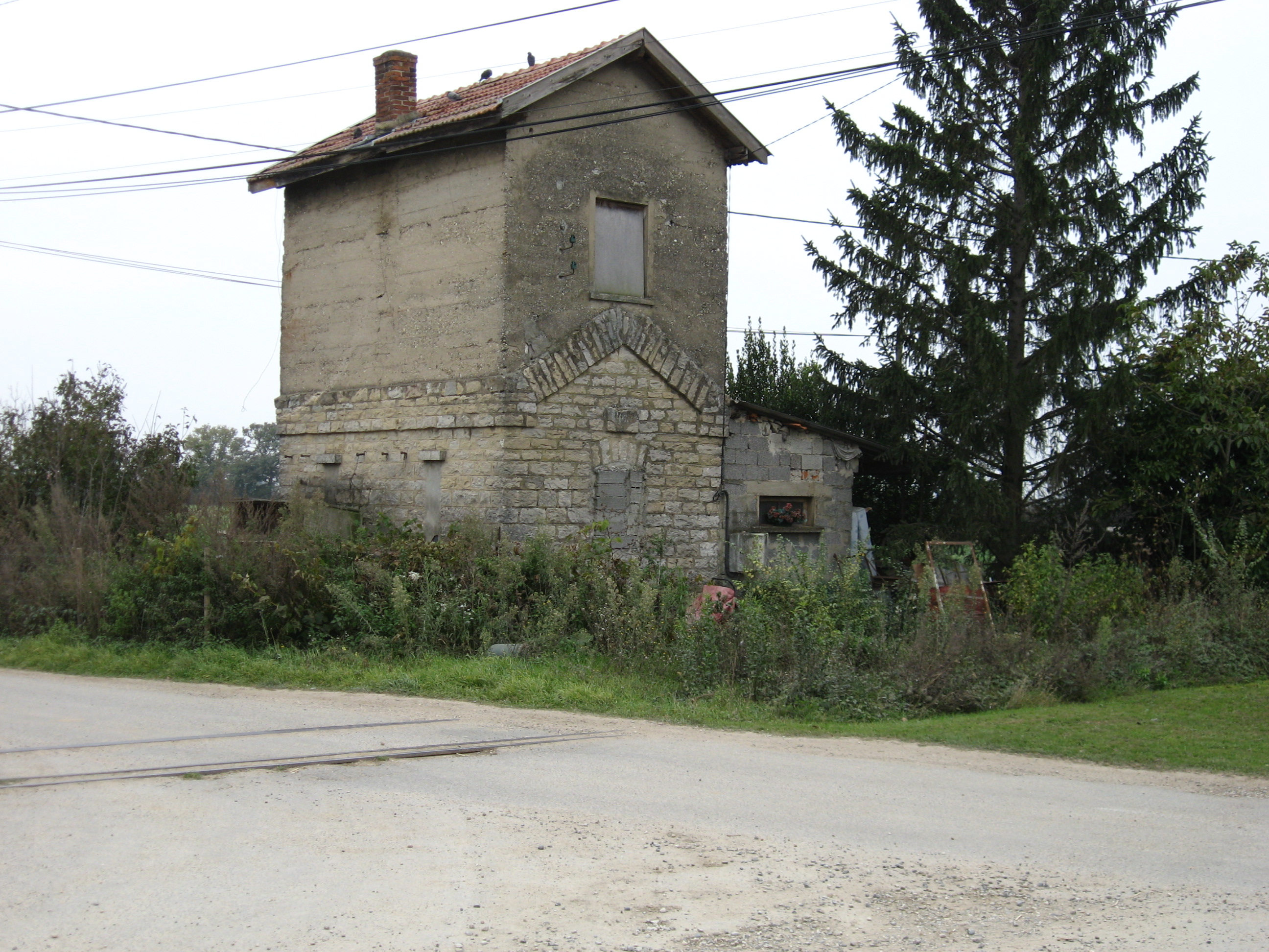 CFEL guardhouse crossing in Pusignan, end 2007. Line between Lyon PD and Crémieu.